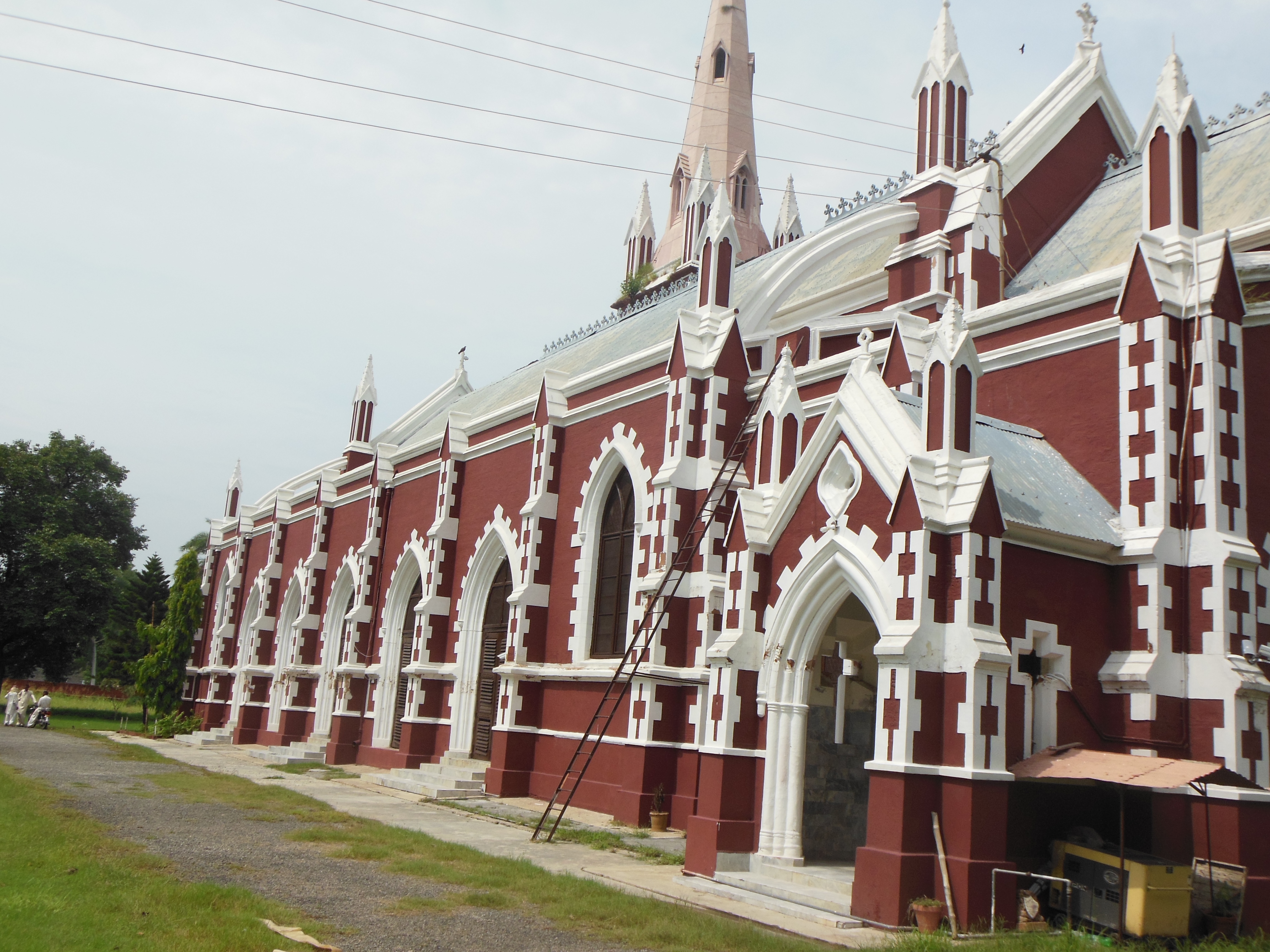 Sialkot Cathedral - Outside of the Sialkot Cathedral located in Sialkot Cantt, Pakistan. This is a photo of a monument in Pakistan identified as the PB-U-60